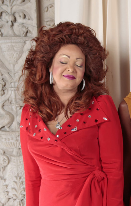 Chantal Biya (President Barack Obama and First Lady Michelle Obama pose for a photo during a reception at the Metropolitan Museum in New York with Paul Biya.)